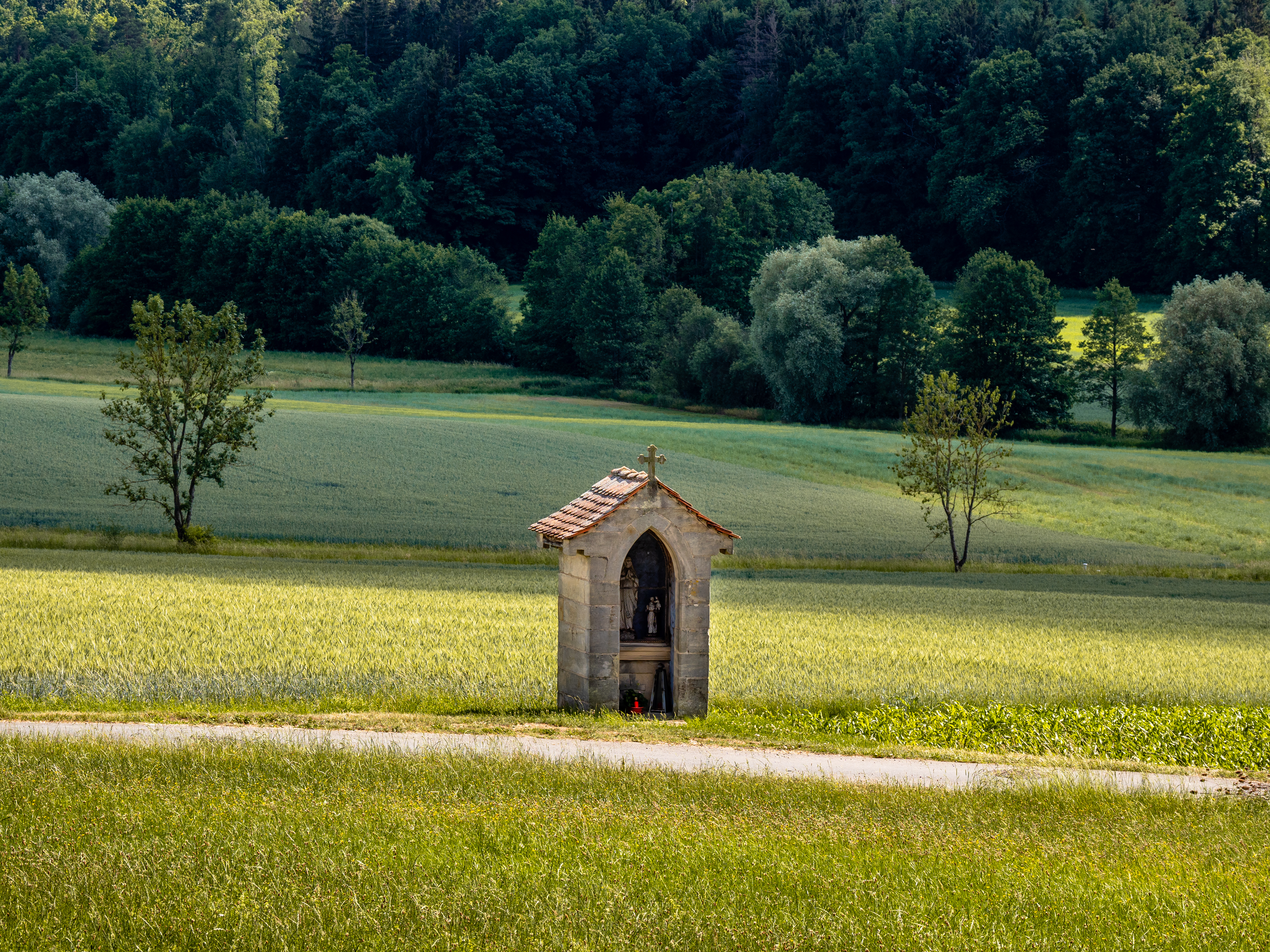 Field chapel near Windischletten in Upper Franconia